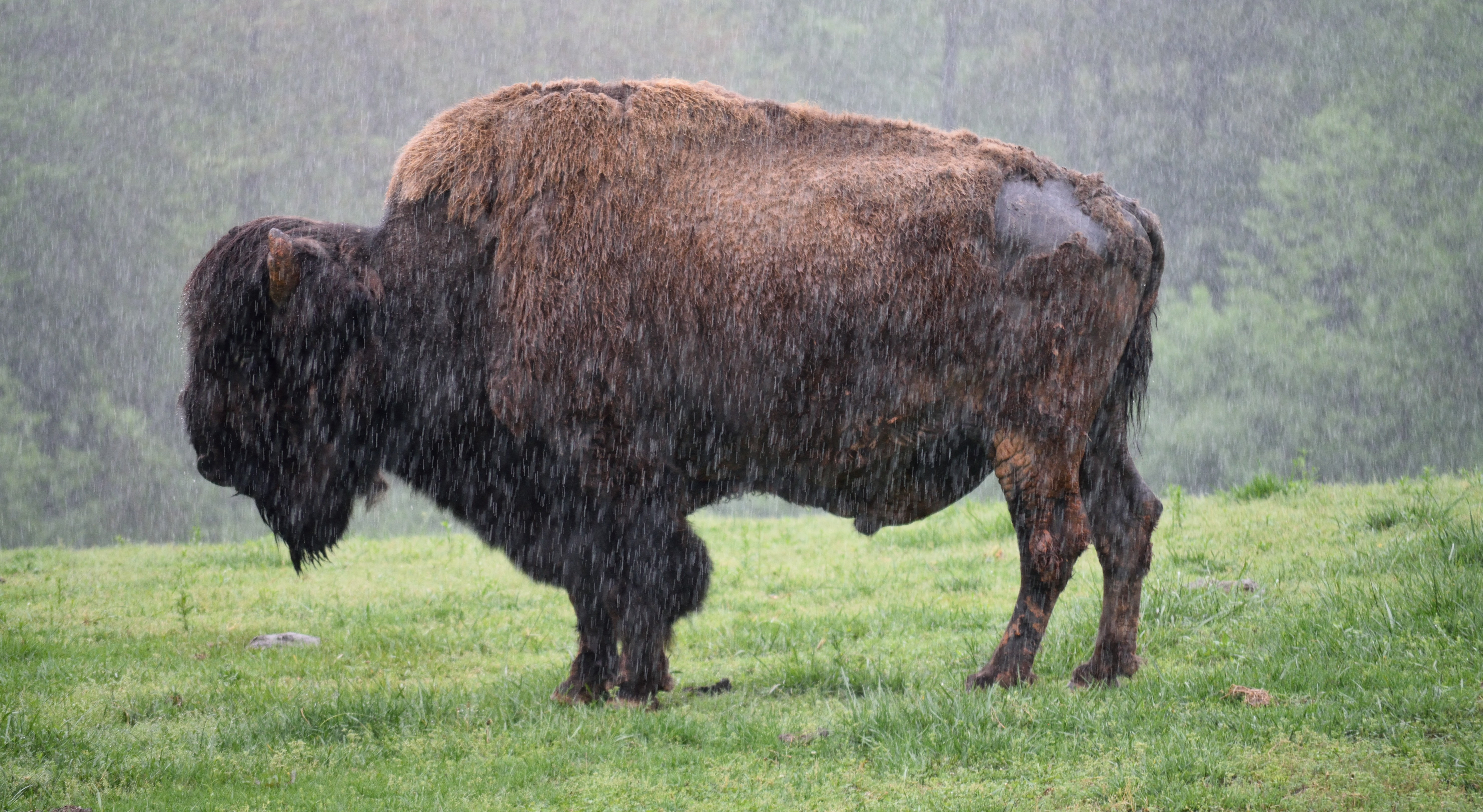 Buffalo at the North Carolina Zoo